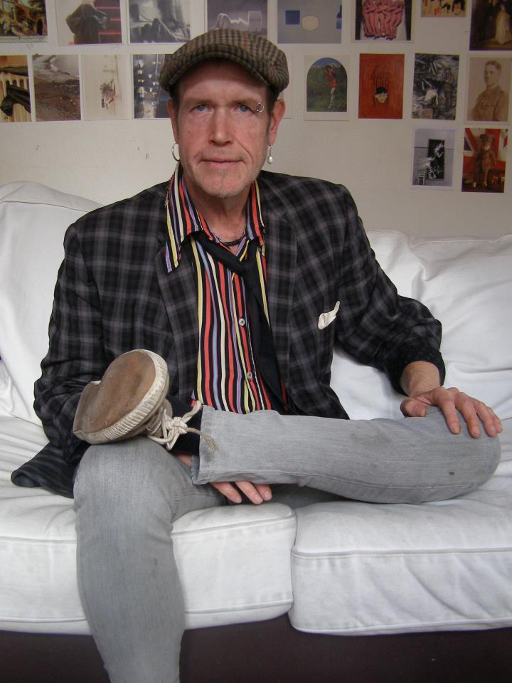 Chris Ward playwright photographed (2015)